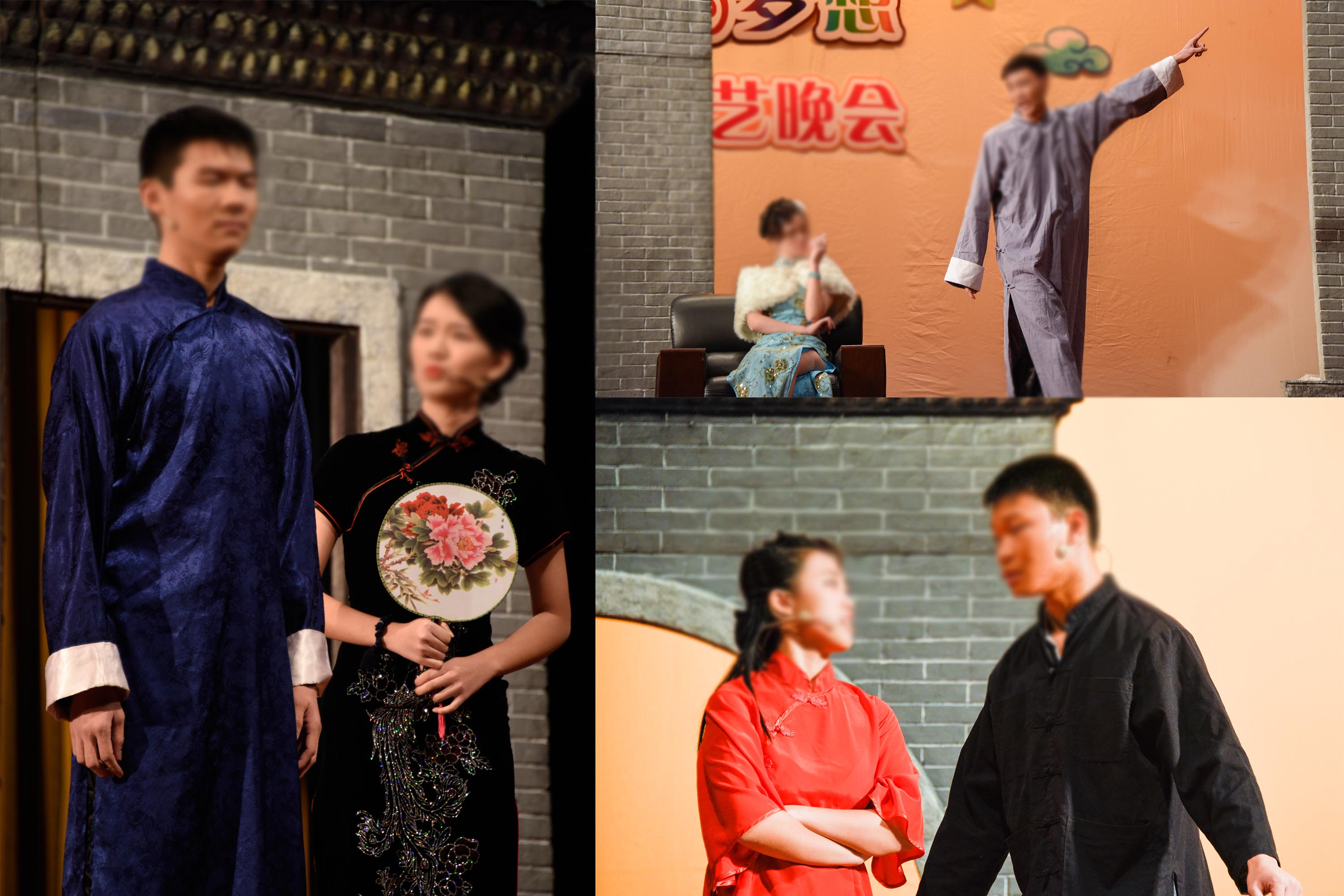 Performing Cao Yu's plays on Sing-Hoi Evening Show.